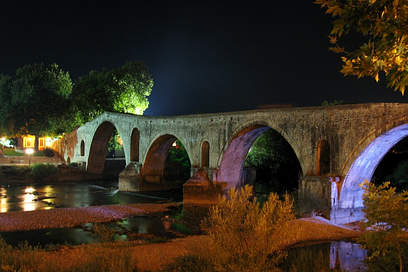 Night view of the Bridge of Arta, Epirus, Greece